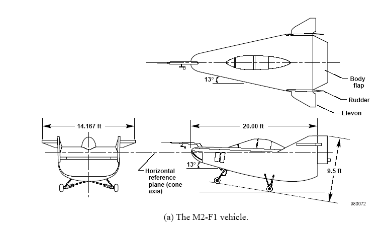 NASA M2-F1 lifting body three view diagram